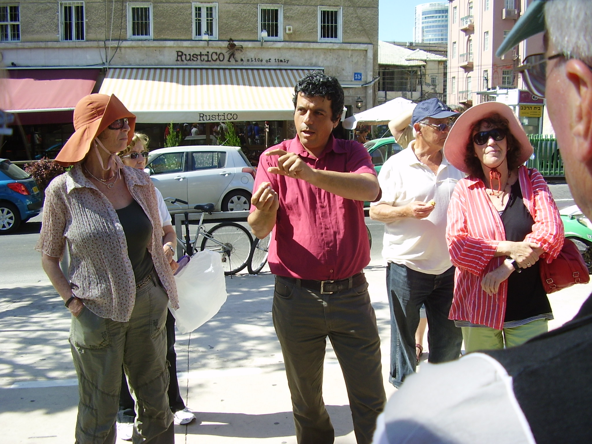 ofer regev guides a group in tel aviv עופר רגב מדריך קבוצה בשדרות רוטשילד בתל אביב